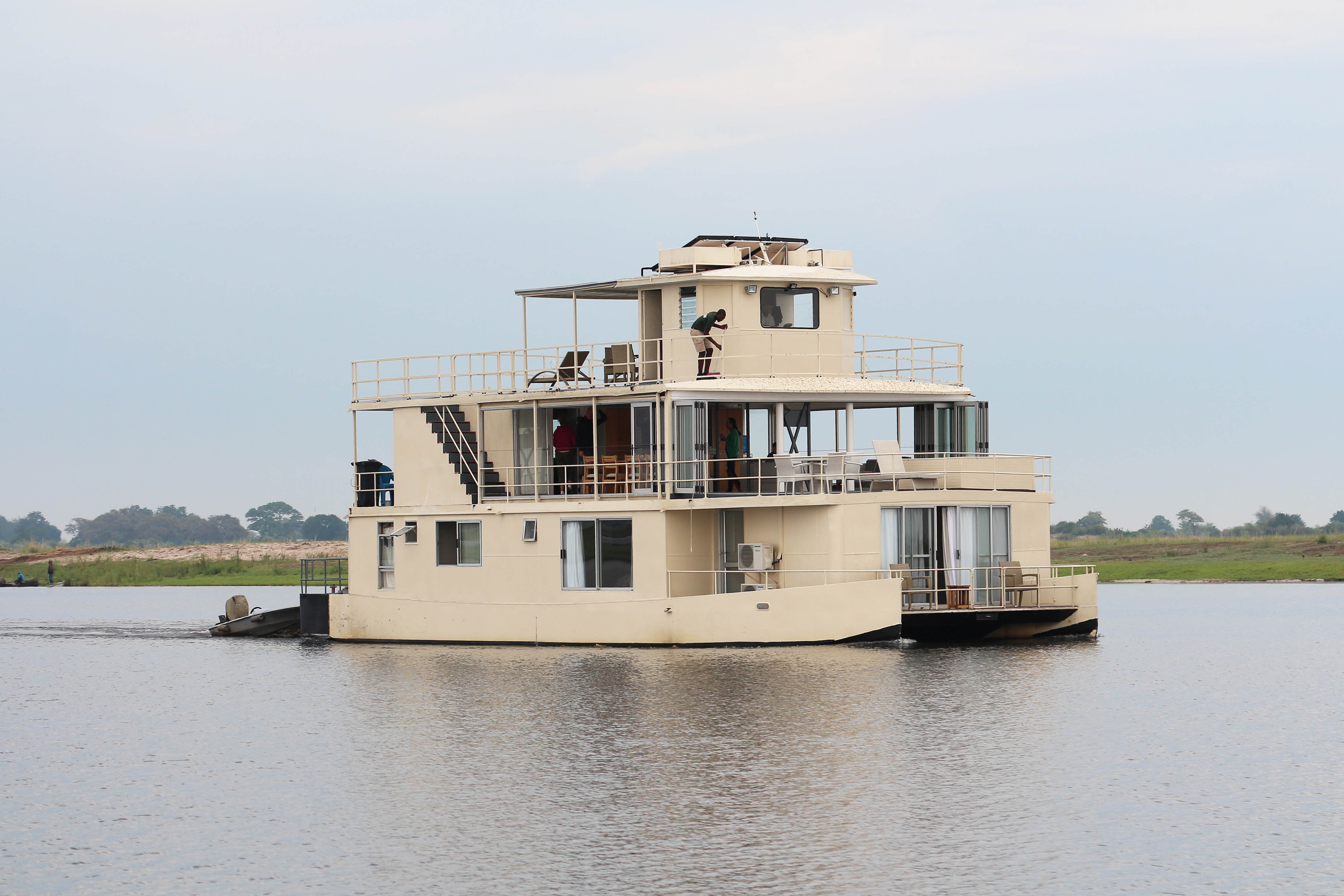 Boat on Cuando River in Chobe National Park, Botswana